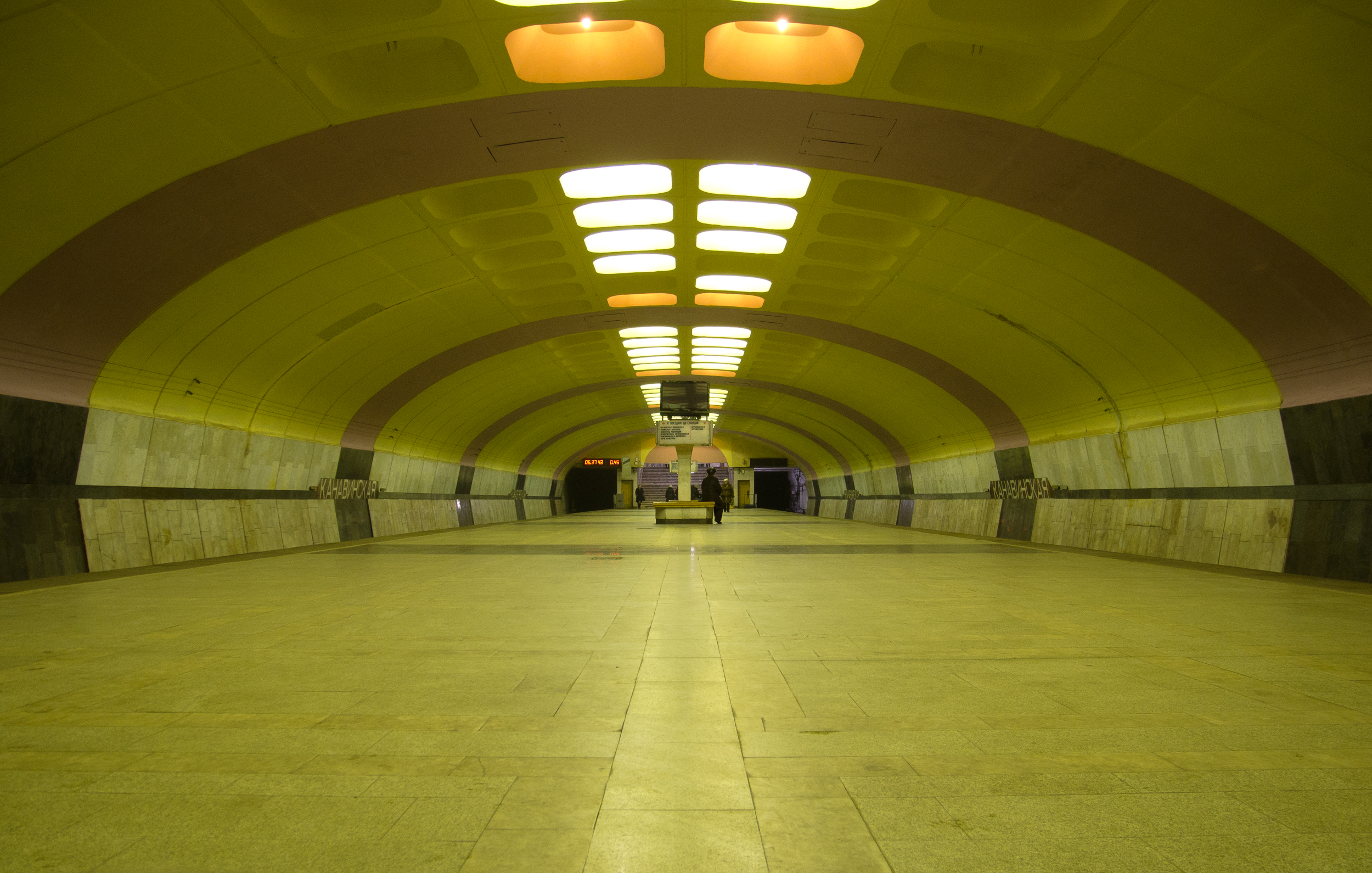 Kanavinskaya station of Nizhny Novgorod Subway